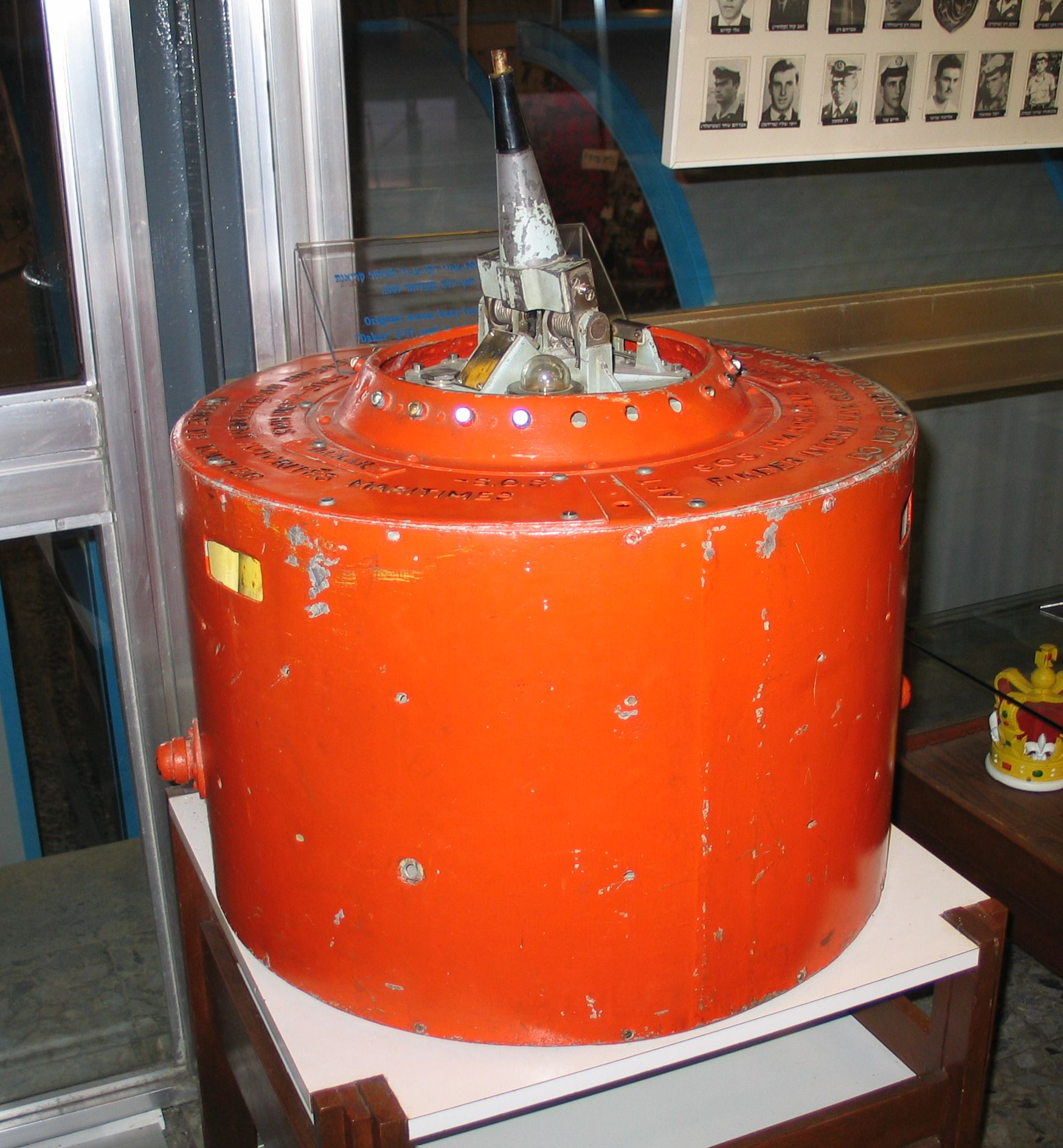 Rescue buoy from the INS Dakar (Ts-77) submarine in the Clandestine Immigration and Naval Museum, Haifa, Israel.